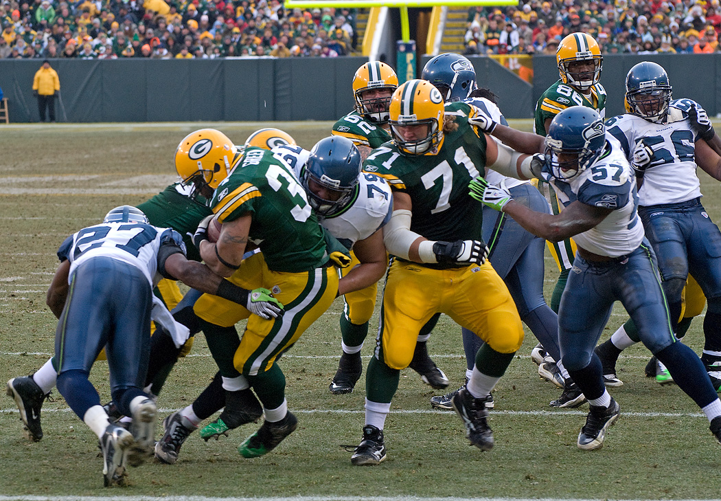 Seattle vs. Green Bay • December 27, 2009 at Lambeau Field in Green Bay, Wisconsin.